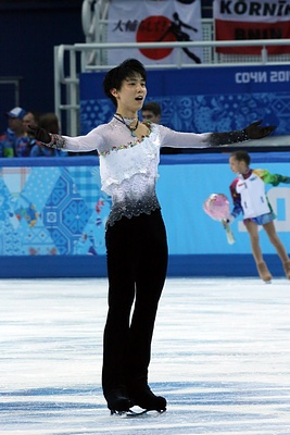 Yuzuru Hanyu during his free program at the 2014 Winter Olympics.He won the gold medal at this competition.